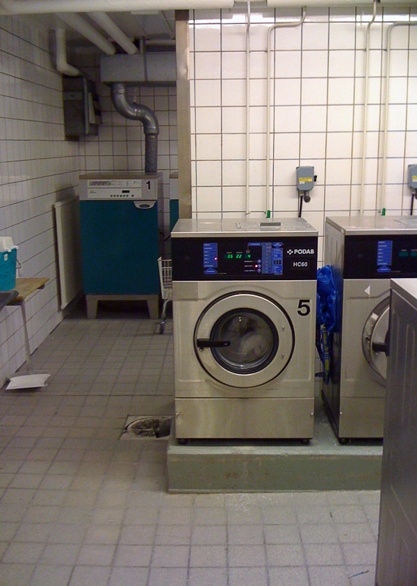 A laundry room in Stadshagen, Stockholm, Sweden.